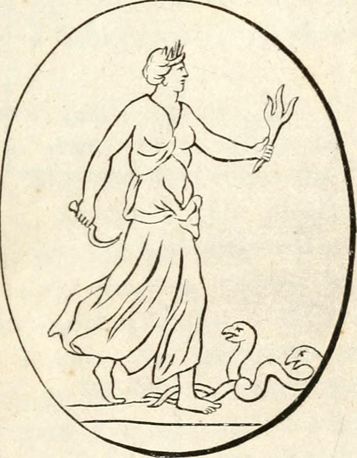 Title: Mythological fictions of the Greeks and Romans Year: 1830 (1830s) Authors: Moutz, Karl Philipp, 1757-1793 Jaeger, Charles Frederick William Subjects: Mythology, Classical Publisher: New York : G. & C. & H. Carvill Text Appearing Before Image: ' Text Appearing After Image: THE NEW YORK. PUBLIC LIBRARY TILDEN FOUNDATIONS. MORITZ MYTHOLOGY. 87 earth ; the one caUing forth the nourishing ear of corn,the other impregnating the lap of the earth with sacred,fertihzmg warmth. Ceres was the happy mother of Proserpina, to whom,however, the sweet hght of the sun was granted by fateonly for a short time, youth and beauty soon becomingin her a prey of inexorable Orcus. Gathering with hercompanions, in the island of Sicily, the flowers of themeadow in harmless, unconcerned youth, Proserpinawas seen by Pluto, and ciiosen by him for the queen ofthe shades. The king of terrors seized her with hismighty arms, and, regardless of her feeble struggles,her tears, and lamentations, raised her on his chariotdrawai by black horses. Provoked by the daring deed,and pitying the fate of the innocent \-ictim, the nymphCyane, one of Proserpinas attendants, endeavoured tostop the snorting steeds, but Pluto, thrusting his sceptreinto the ground, soon made way for himself; the earthbur